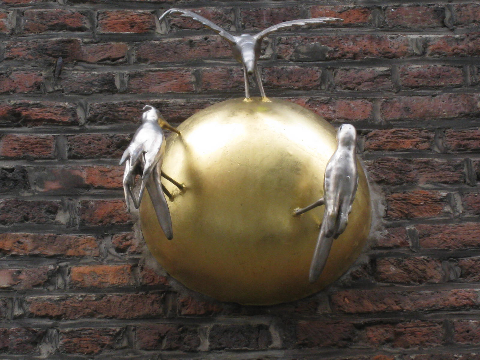 Detail installatie Hugo Duchateau, 2004